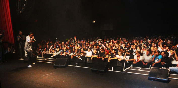 K.Dot Toronto, June 16th 2011